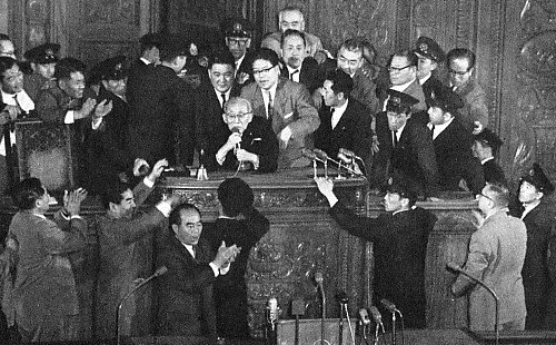 1960 Protests against the United States-Japan Security Treaty